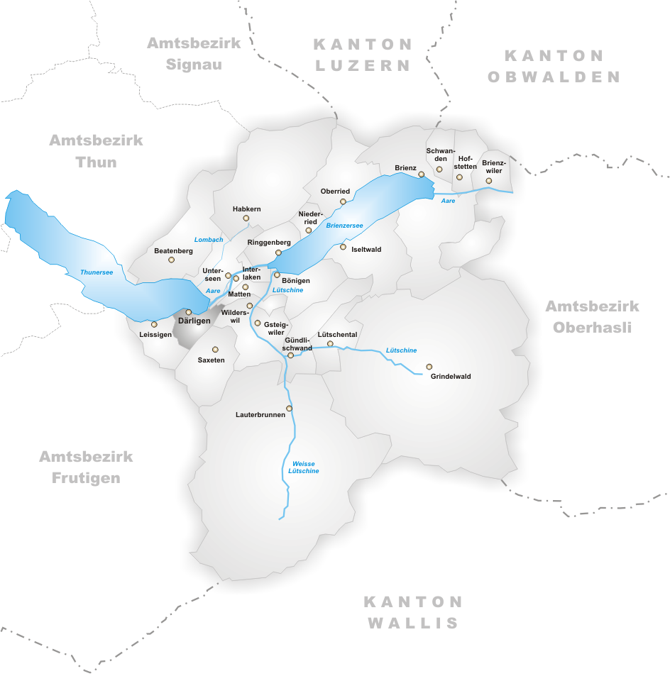 Municipality Därligen